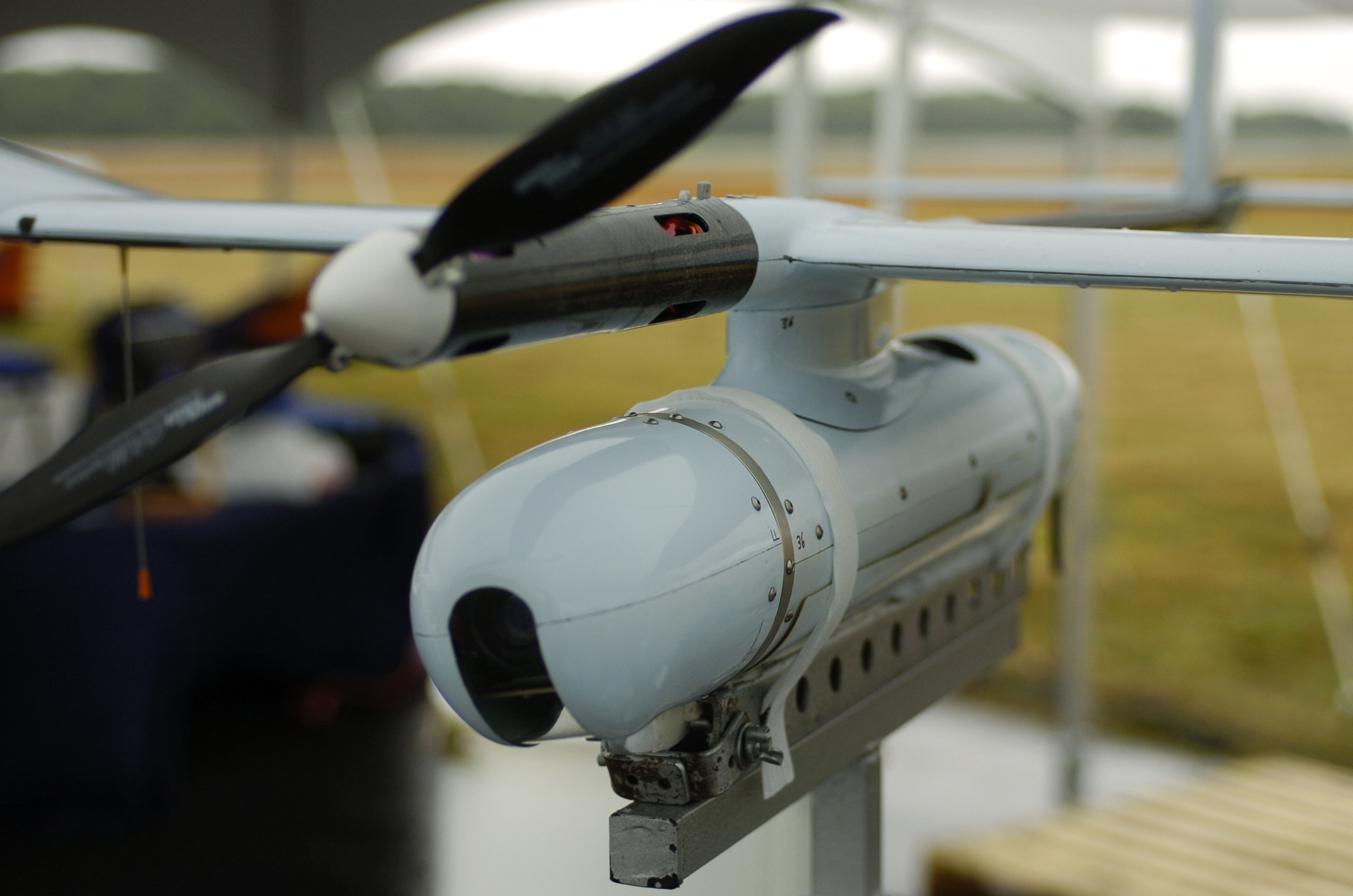 St. Inigoes, Md. (June 27, 2005) – A "Skylark" Unmanned Aerial Vehicle (UAV) on display at the 2005 Naval UAV Air Demo held at the Webster Field Annex of Naval Air Station Patuxent River. Skylark is a man-pack system for close range, over the hill surveillance and reconnaissance. The UAV, designed for perimeter security, border surveillance and law enforcement, has a wingspan of 2.4 meters and has a mission endurance of two hours. Its payload can include a color television camera and a forward-looking infrared sensor. The daylong UAV demonstration highlights unmanned technology and capabilities from the military and industry and offers a unique opportunity to display and demonstrate full-scale systems and hardware. This year’s theme was, “Focusing Unmanned Technology on the Global War on Terror.”